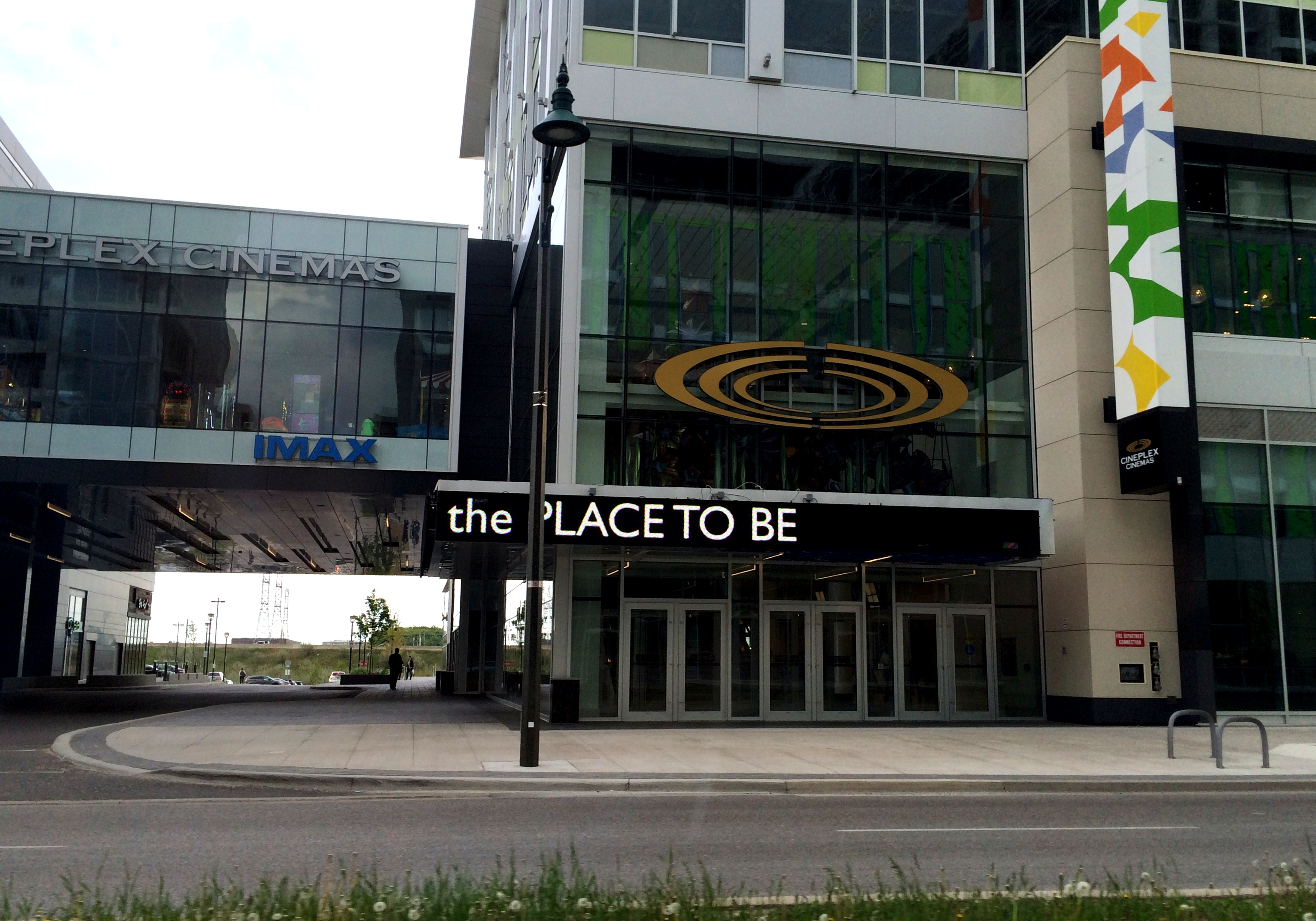 downtown markham